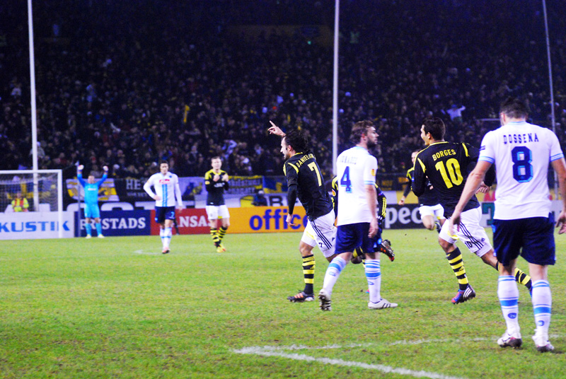 Helgi Daníelsson scored the temporary 1-1 goal against Napoli, UEFA Europa League 2012-2013